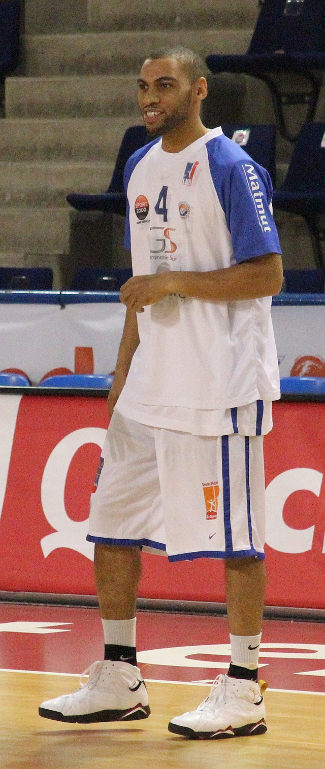 Jason Siggers on october 15th 2011 pre-game SPO Rouen - Lille MBC